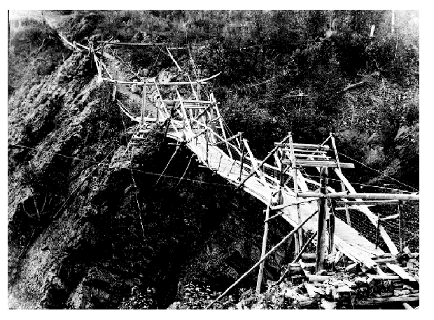 Photographer:Unknown Photo taken:189? Source:BC Archives #A-00783[1]